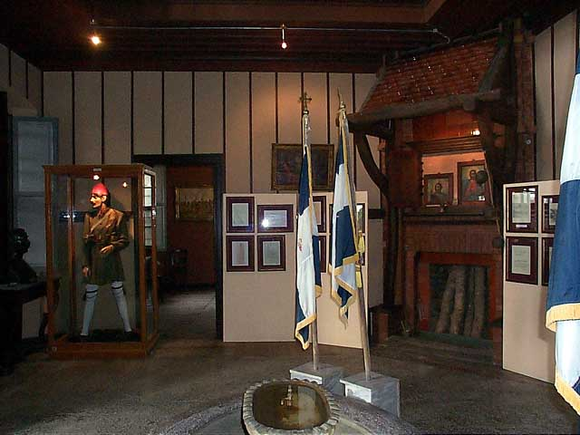 Central hall, image from the Balkan Wars Museum, Yefira, Central Macedonia, Greece